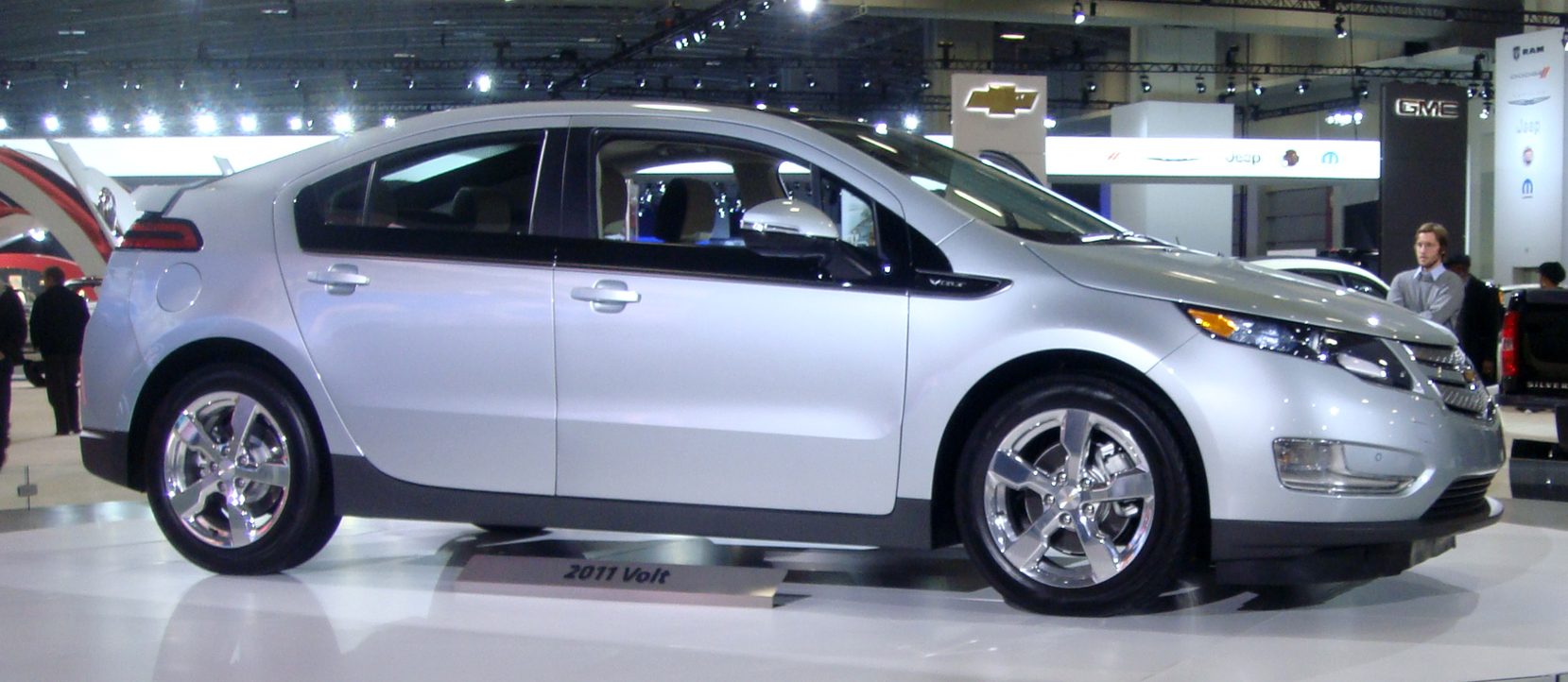 2011 Chevrolet Volt exhibited at the 2011 Washington D.C. Auto Show